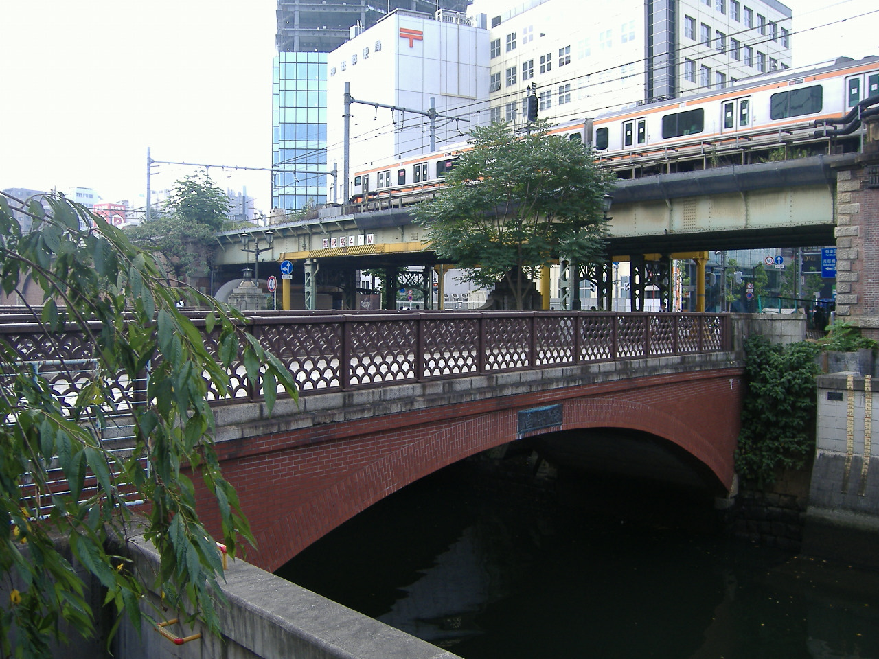 Syouheibashi bridge (Tokyo, Japan)